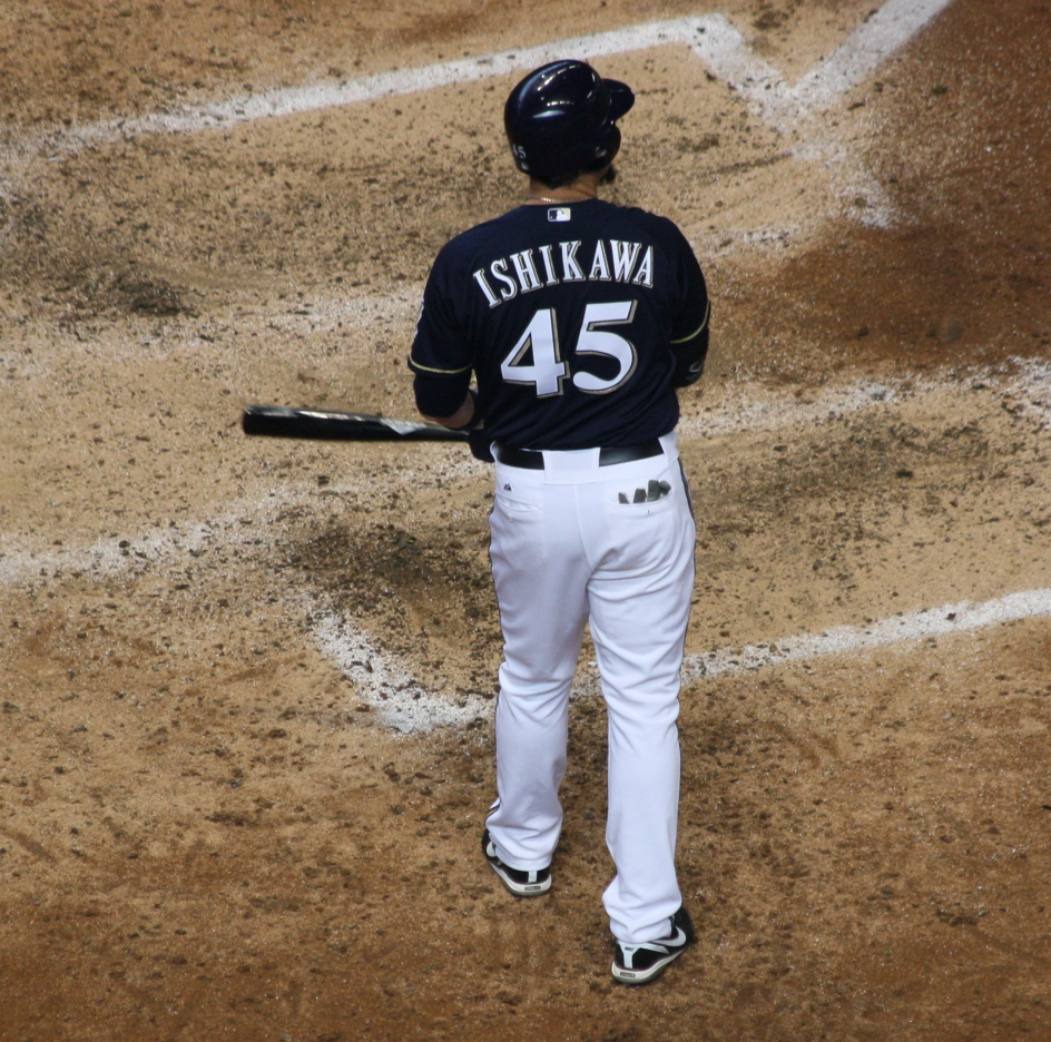 Milwaukee Brewers player Travis Ishikawa.